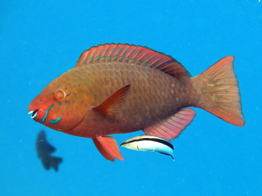 A female blue-faced parrotfish (Scarus prasiognathos) being cleaned by a cleaner wrasse (Labroides dimidiatus) in Maldives (Baa atoll).